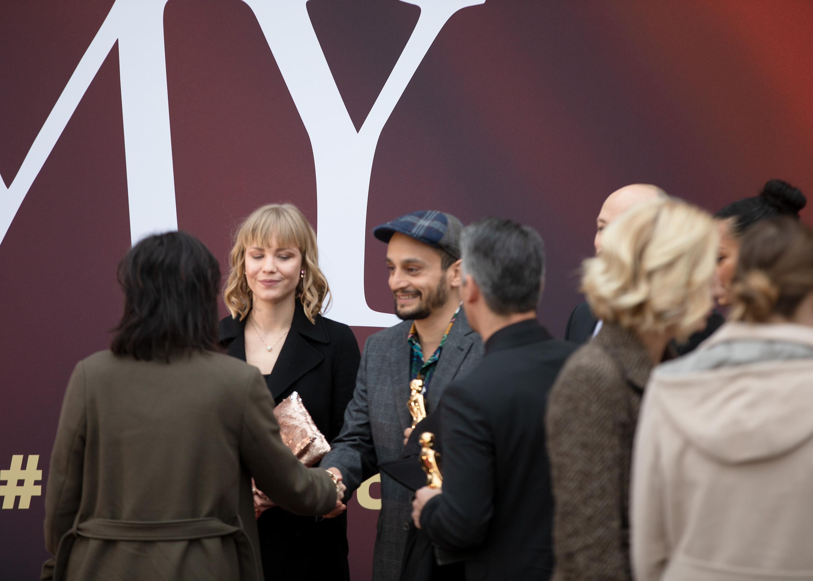 Arman T. Riahir on the red carpet of the Romy TV awards 2018 at Hofburg Palace in Vienna, Austria.